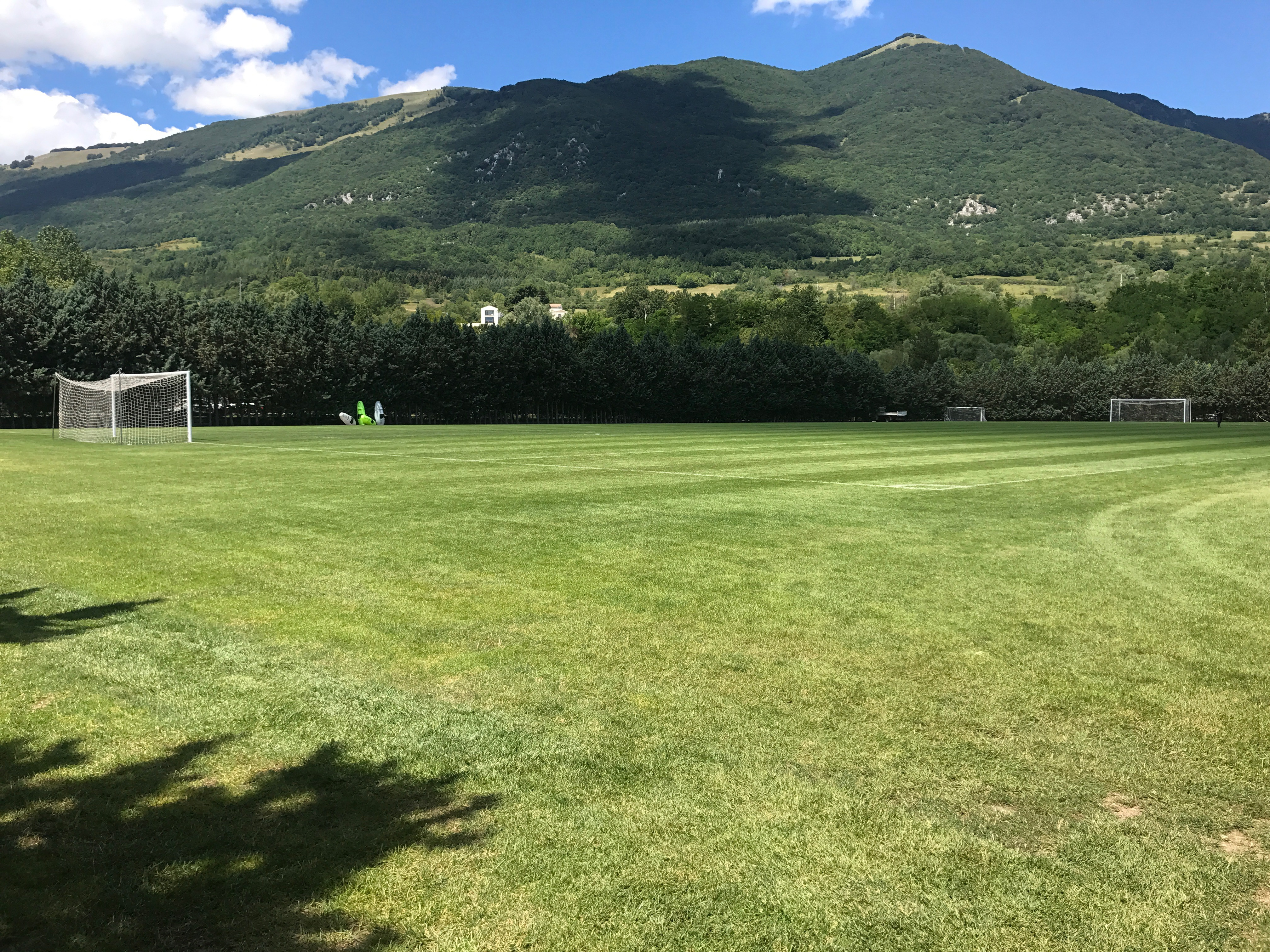 Field B - Patini stadium